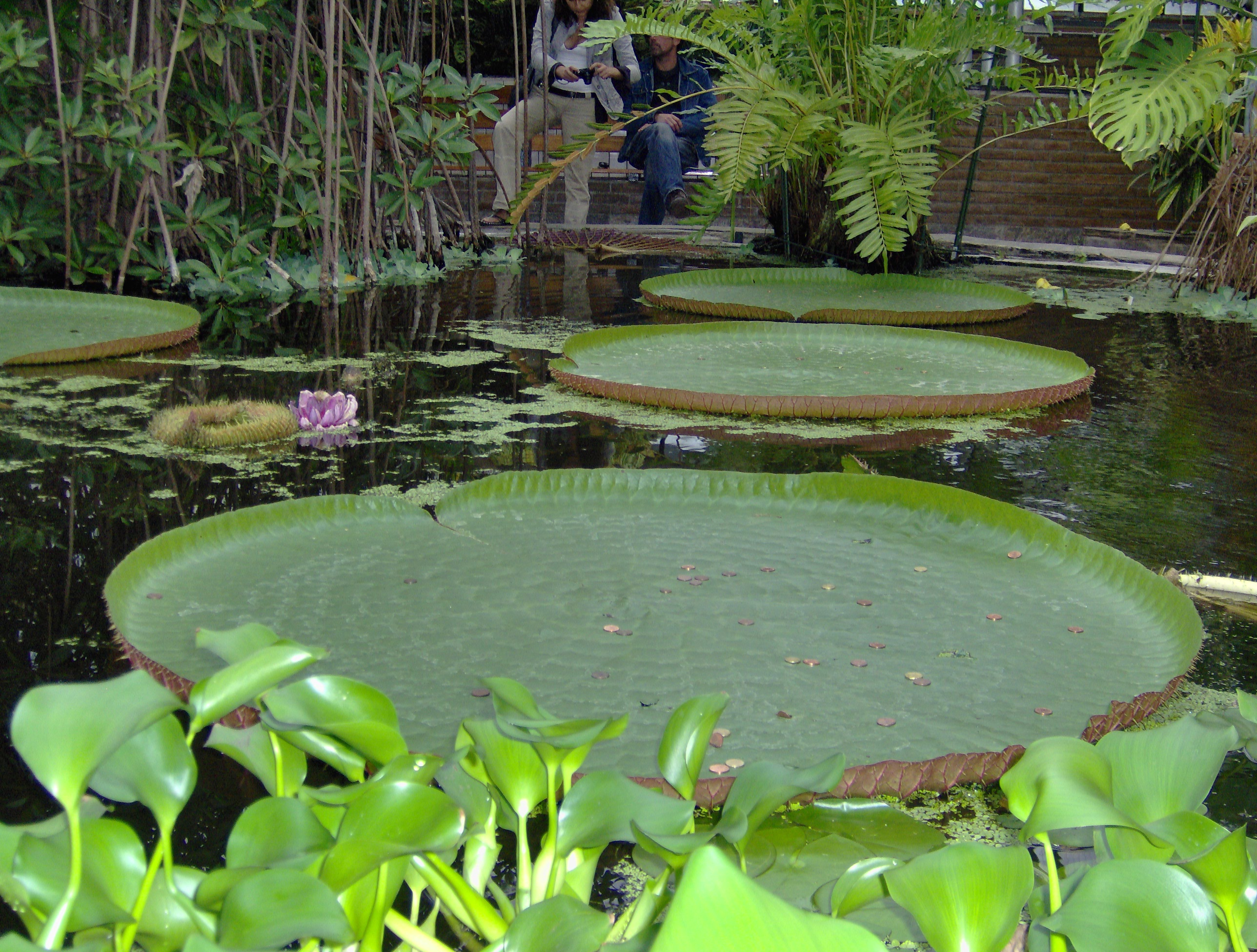 Leaves of the Victoria amazonica in the botanical garden of Leiden, The Netherlands. Coins have been thrown on top of the leaves.